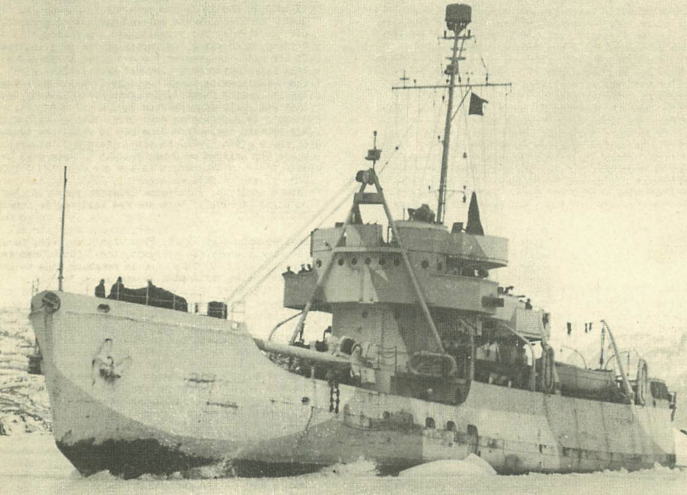 USCGC Laurel in a Greenland Fjord during World War II